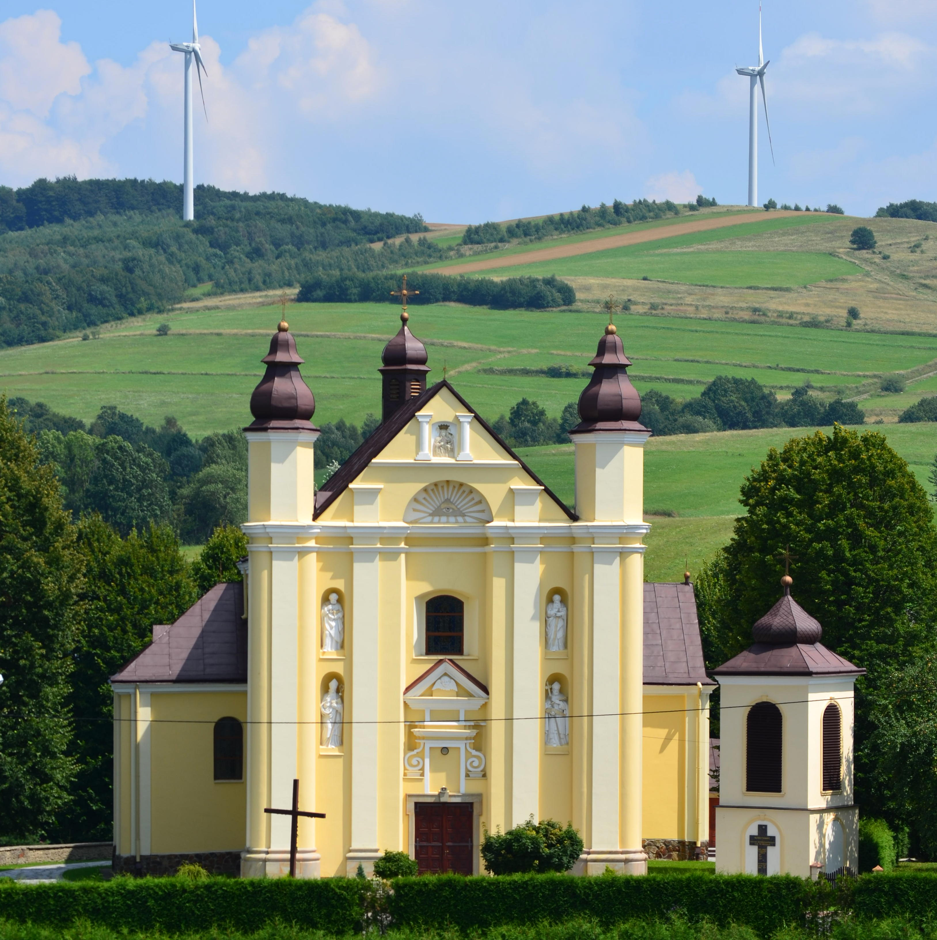 Church of Saint Nicholas in Nowotaniec